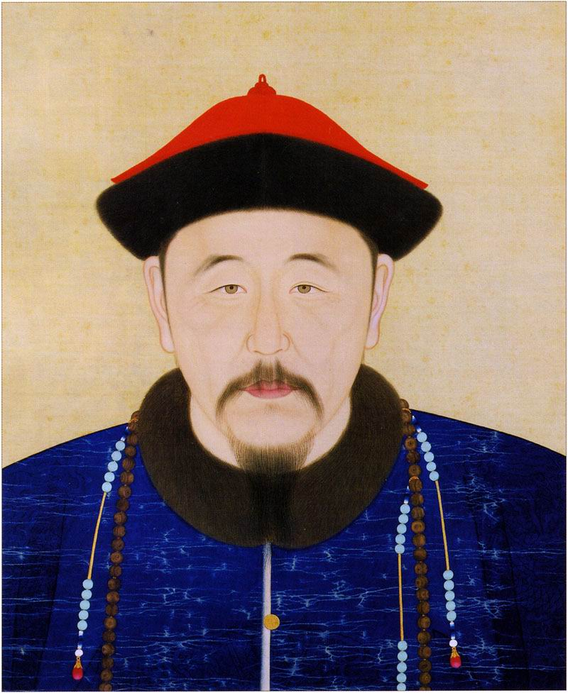 40 years old Emperor Kangxi